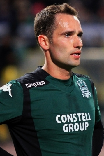 Roman Shirokov